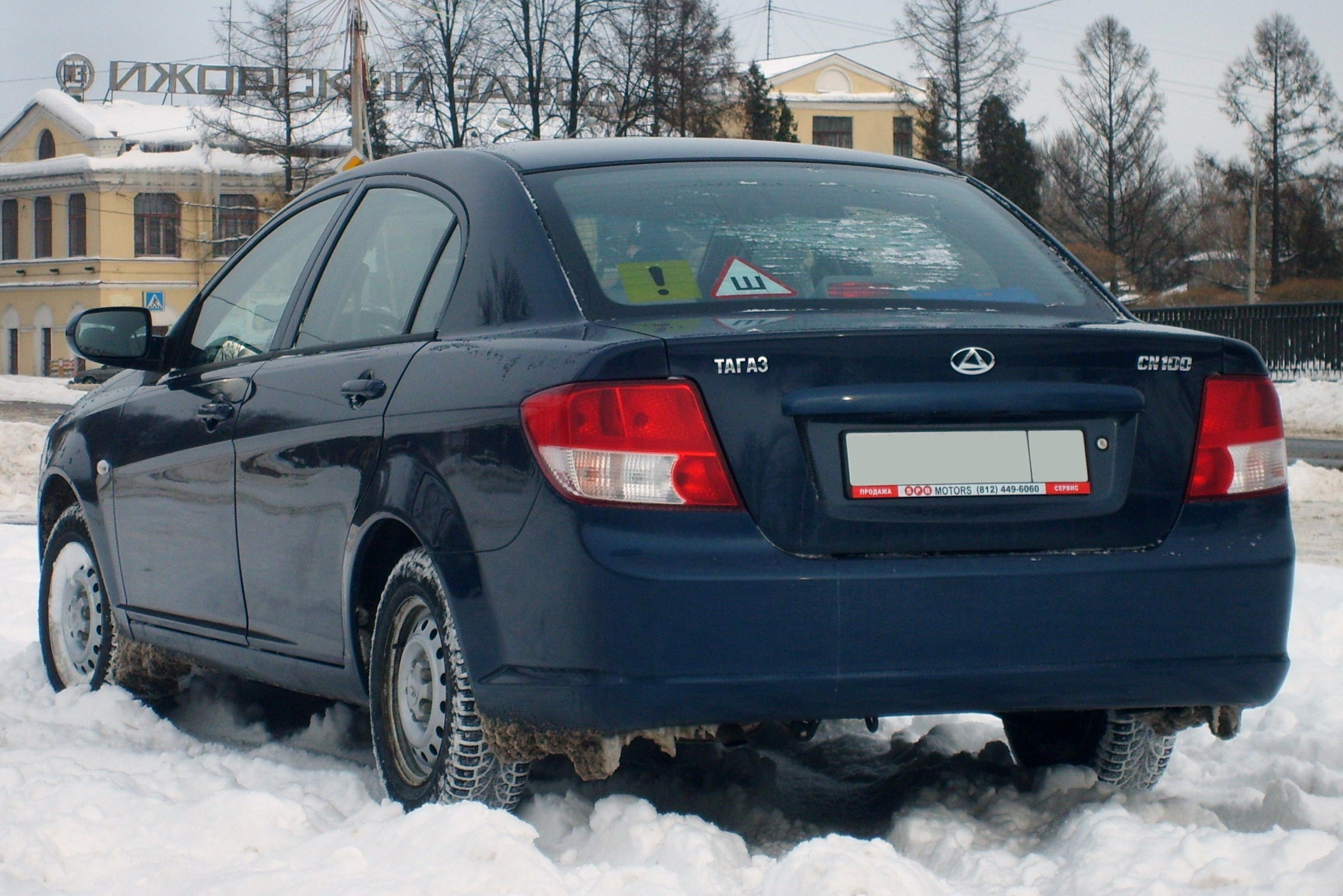 Tagaz Vega rear side